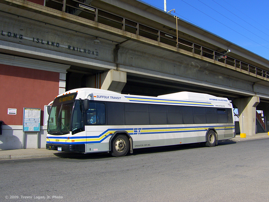 ST Bus 8004